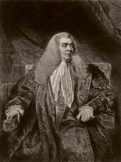 This image is a mezzotint etched reproduction of a painting done by Sir Joshua Reynolds in 1786.